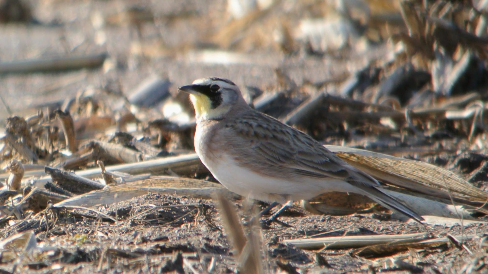 Carlyle Lake 1/20/14